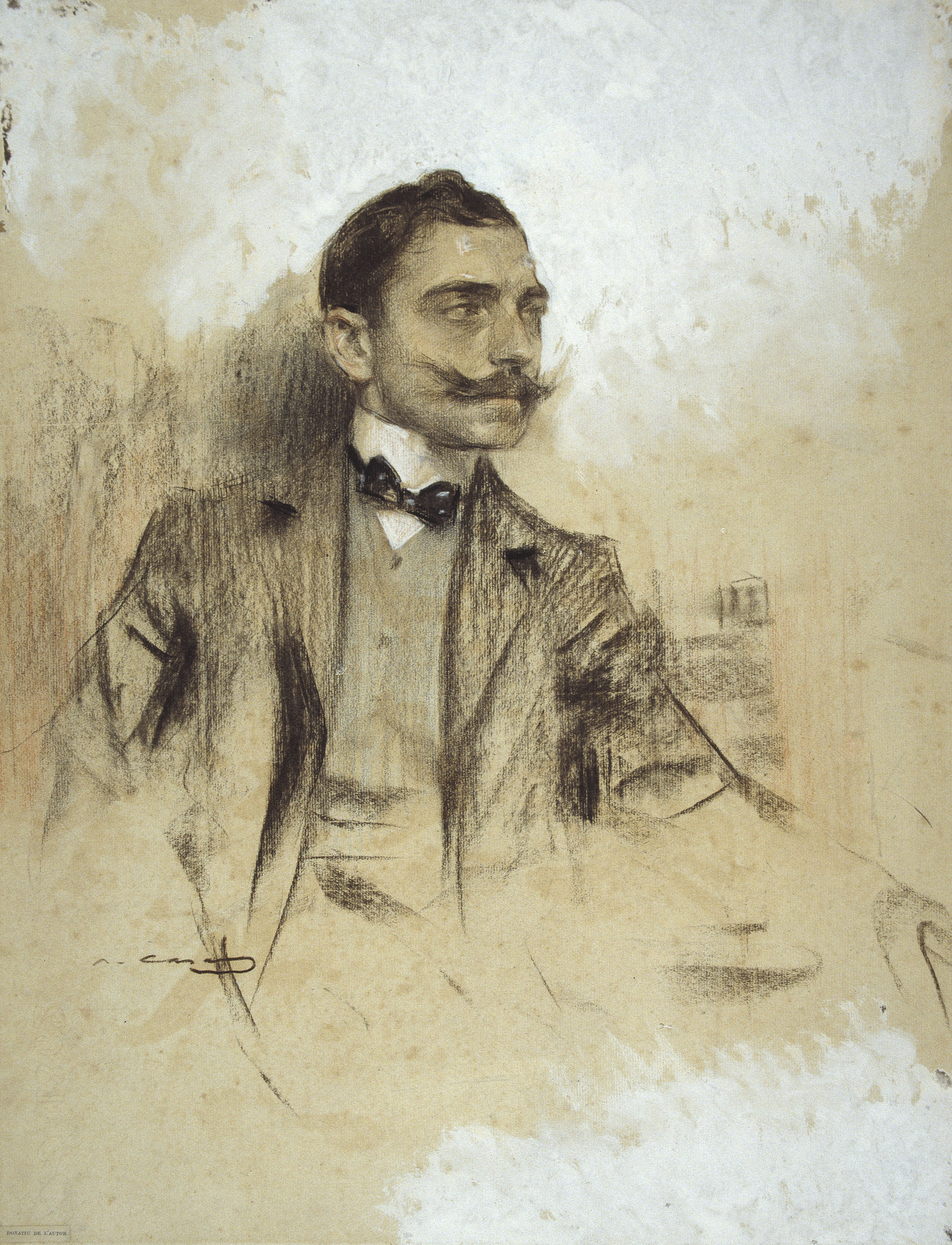 Portrait by Ramon Casas conserved at MNAC in Barcelona.